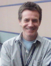 Cartoonist Bill Amend